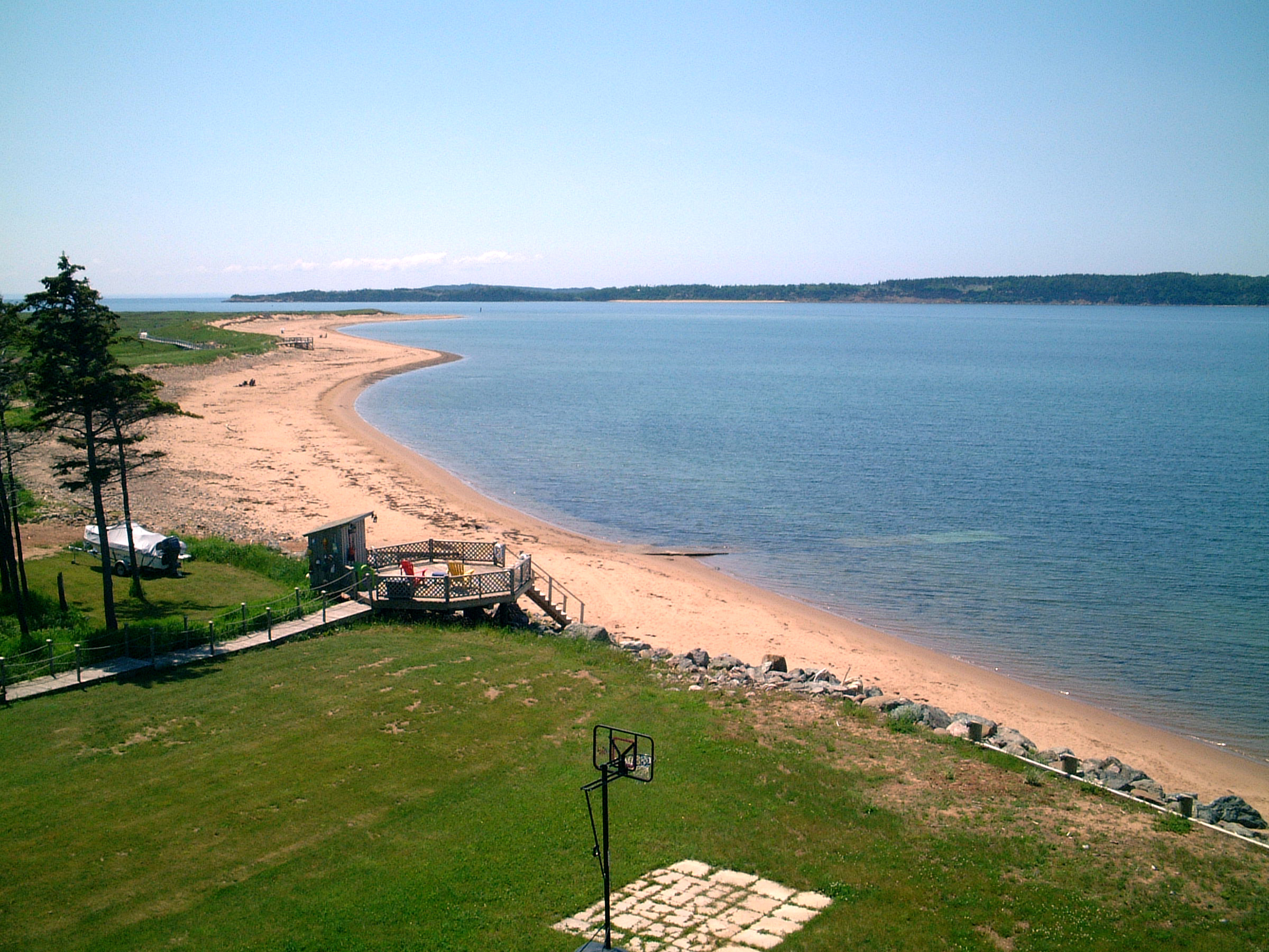 This Picture was taken by Lee Martin on July 5th , 2004 during High Tide.